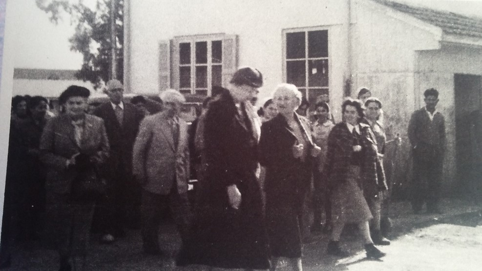 Nadia with Elinor Roosevelt in Nahalal